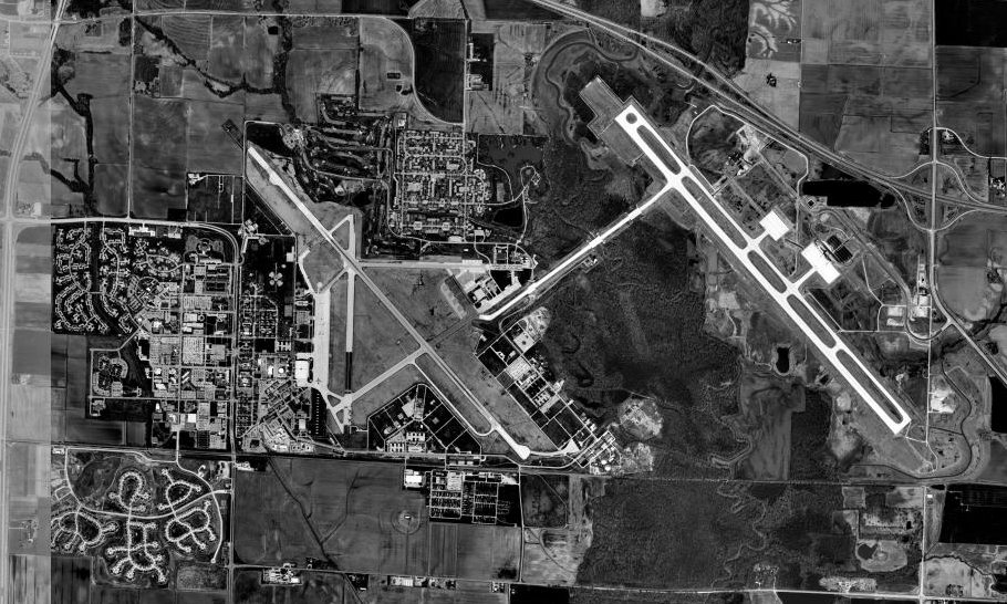 USGS orthophoto of Scott Air Force Base, Illinois